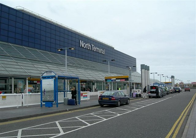 The upper (departure level) road at the North Terminal, Gatwick Airport. This part of the terminal has aince been subject to major remodelling, and the roadway is now an undercover pedestrian circulation area.